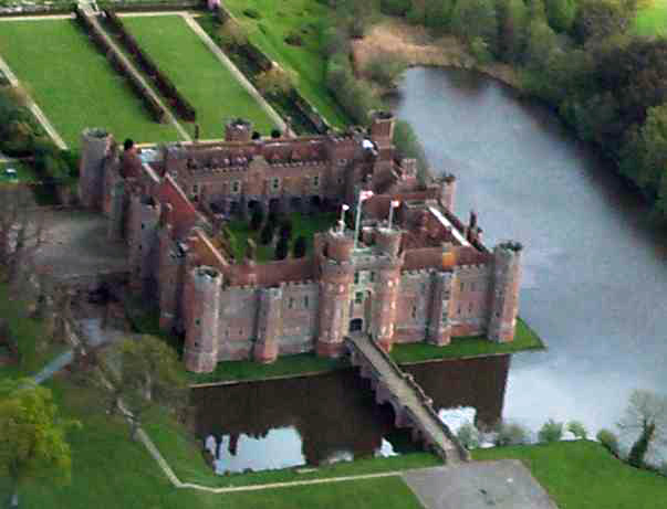 Aerial View of Herstmonceux Castle